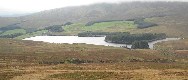 Baddinsgill Reservoir View of more or less the whole reservoir from Grain Heads. I have not yet found the date of construction of the dam, but there was a photograph of the reservoir published by The Scotsman in 1953, and the reservoir is absent from immediate post war Ordnance Survey mapping, suggesting construction around 1950.